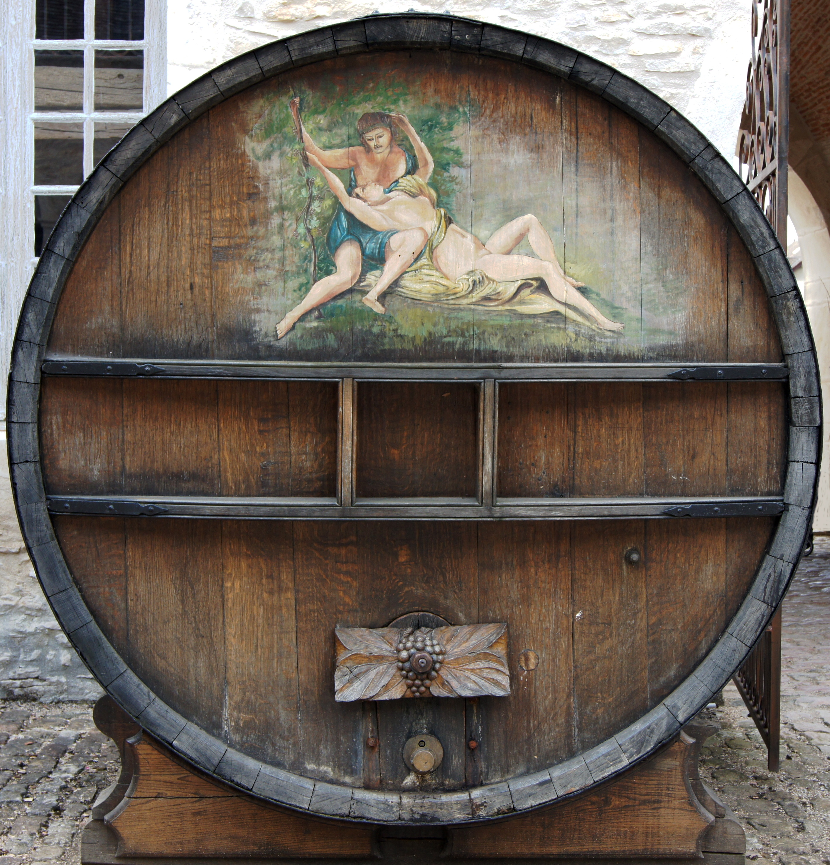 an old painted wine barrel, Château de Pommard, Burgundy, France